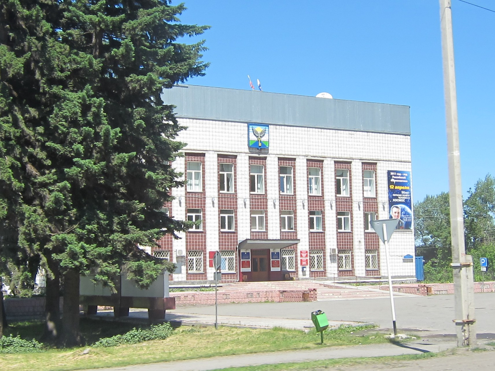 Building of the administration of Mayminsky District (Altai Republic, Russia) in Mayma settlement